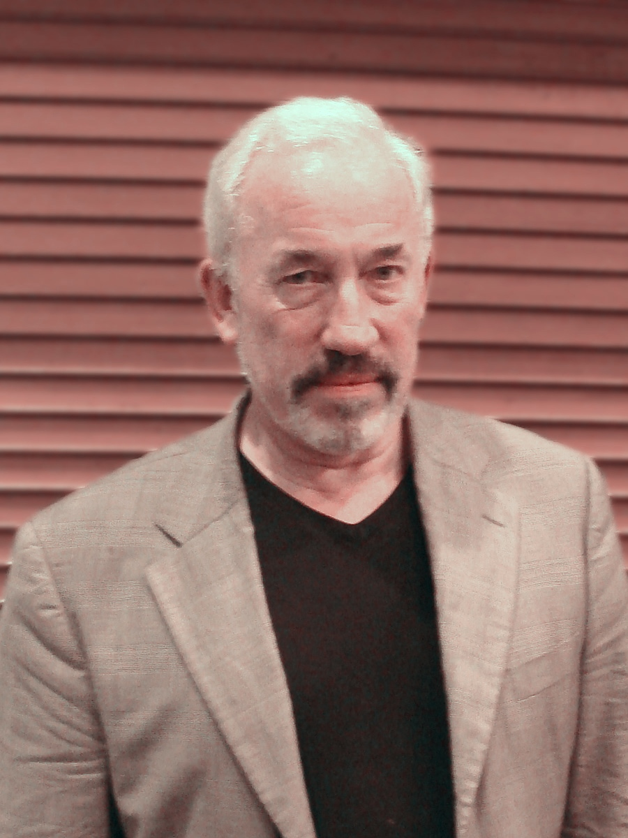 Simon Callow taken at Old Street tube station, London.